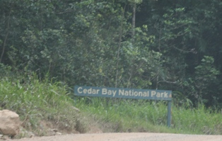 Cedar Bay National Park, North Queensland, Australia